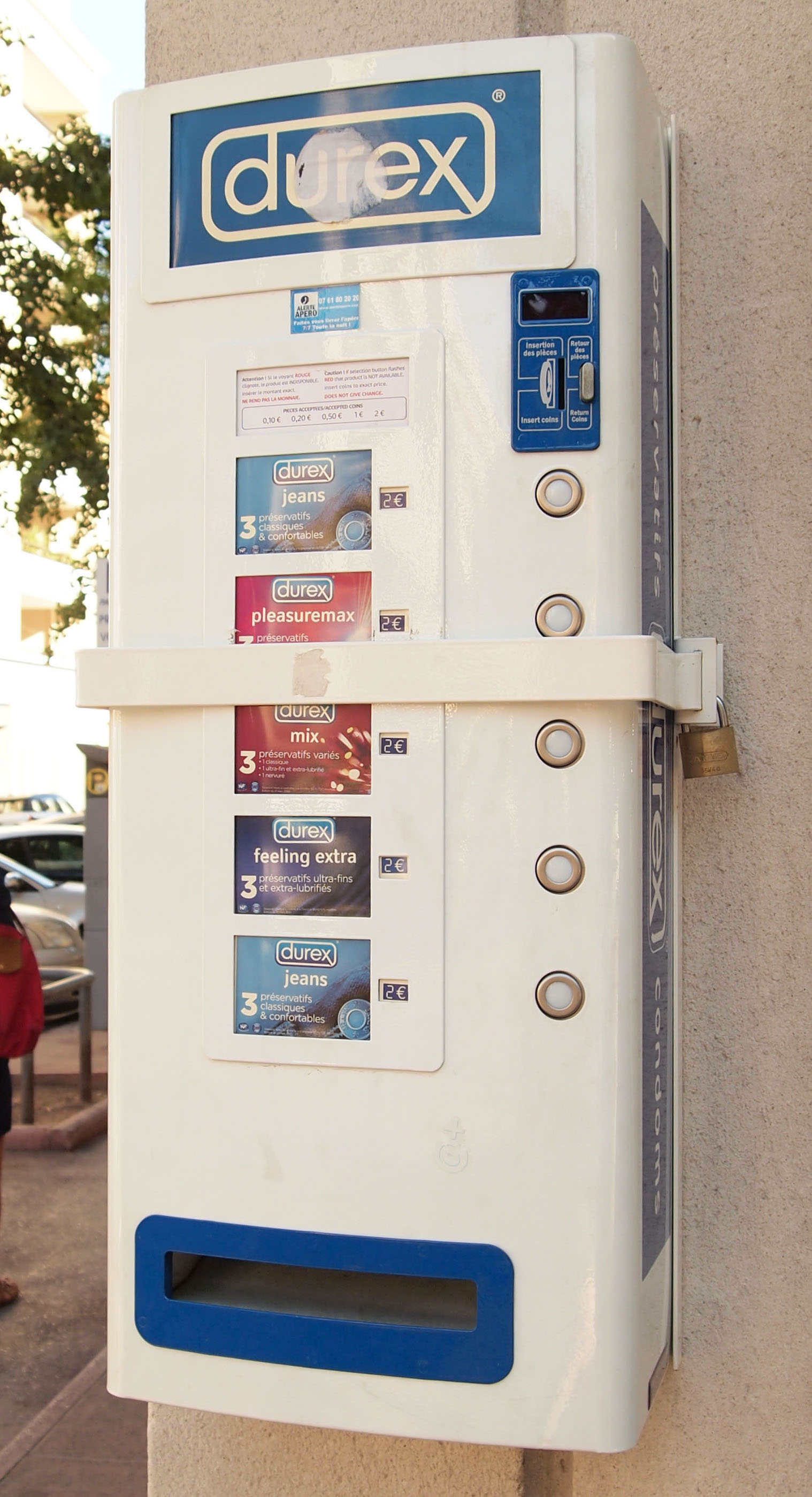 A condom automat in Marseille. This photograph was taken with an Olympus E-PL1